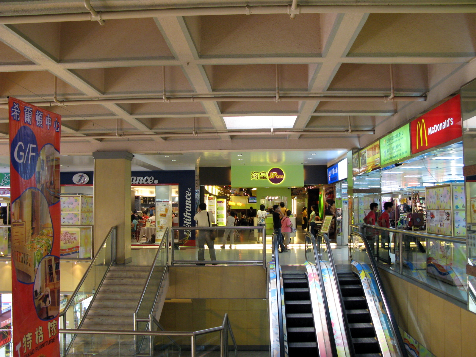 HK Shatin Hilton Centre VOID